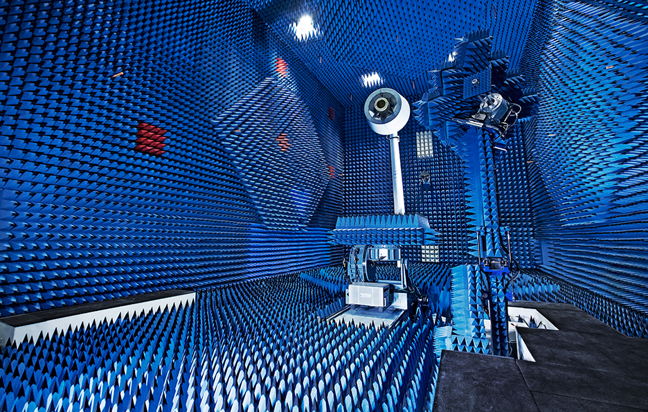 DAHLGREN, Va. (May 11, 2010) The Link-16, AS-4127A maritime antenna is tested with compact range equipment in the specialized antenna anechoic chamber at the new Surface Sensors and Combat Systems Facility at Naval Surface Warfare Center (NSWC) Dahlgren. (U.S. Navy photo/Released)